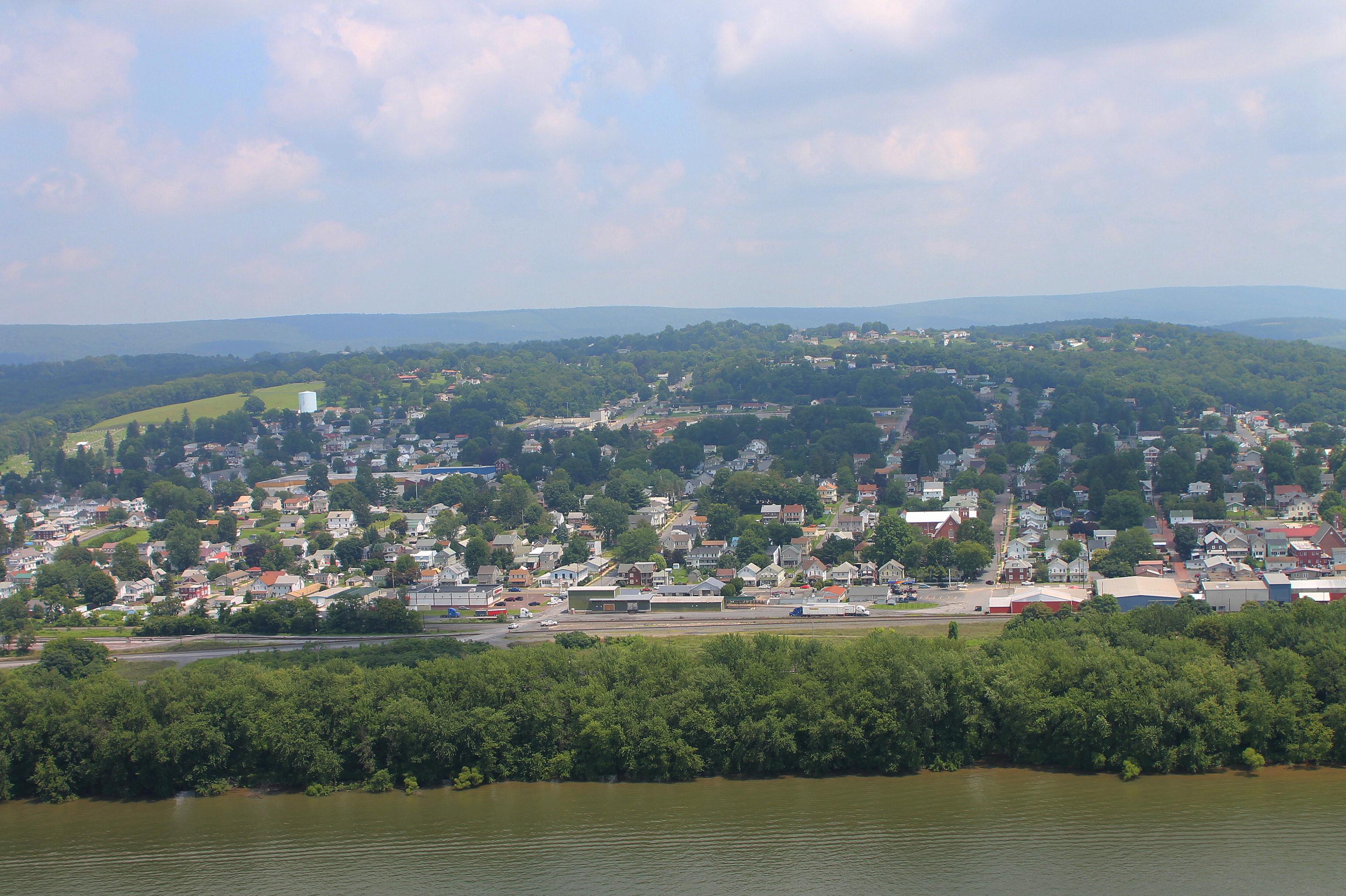 View of Northumberland from the Shikellamy State Park overlook